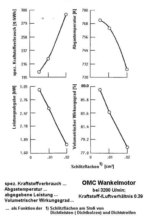 Performance and Efficiency Evaluation and ... efficiency of an experimental Outboard Marine Corporation (OMC) rotary combustion engine